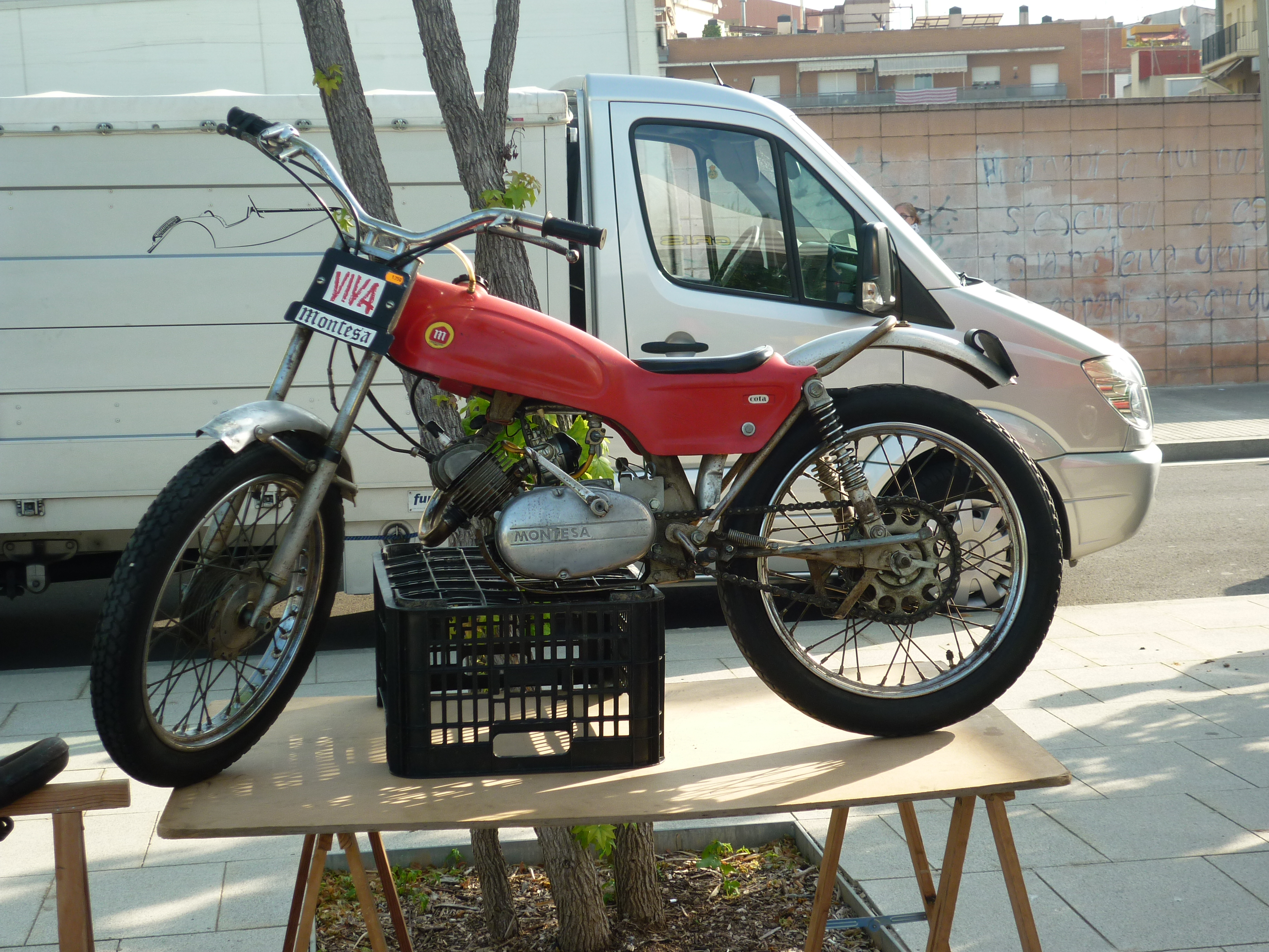 Montesa Cota 25, 1972 (the filename is wrong)